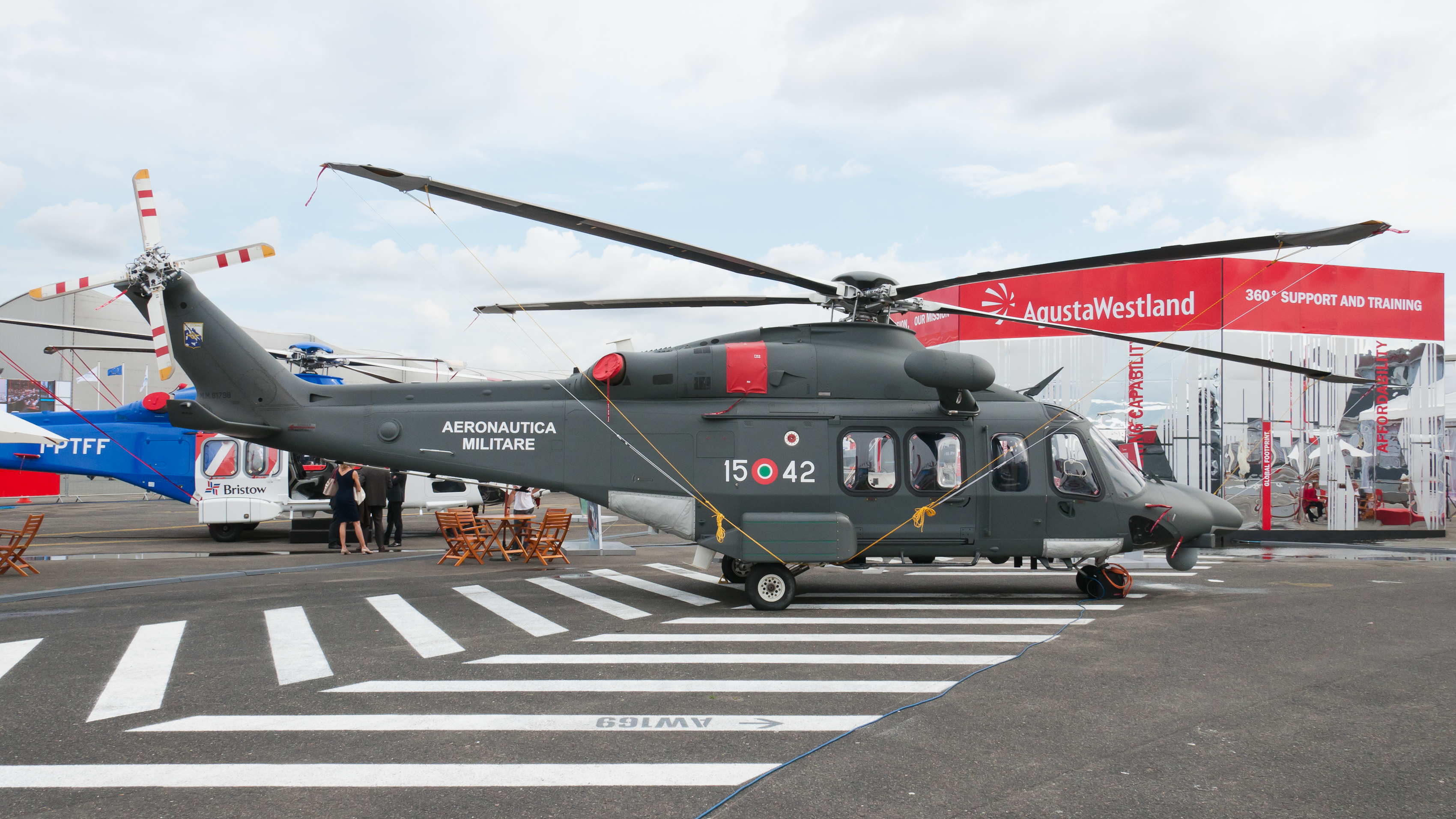 Italian Air Force AgustaWestland HH-139A (AW-139M) (reg. CSX81798/15-42, c/n 31420) at Paris Air Show 2013.